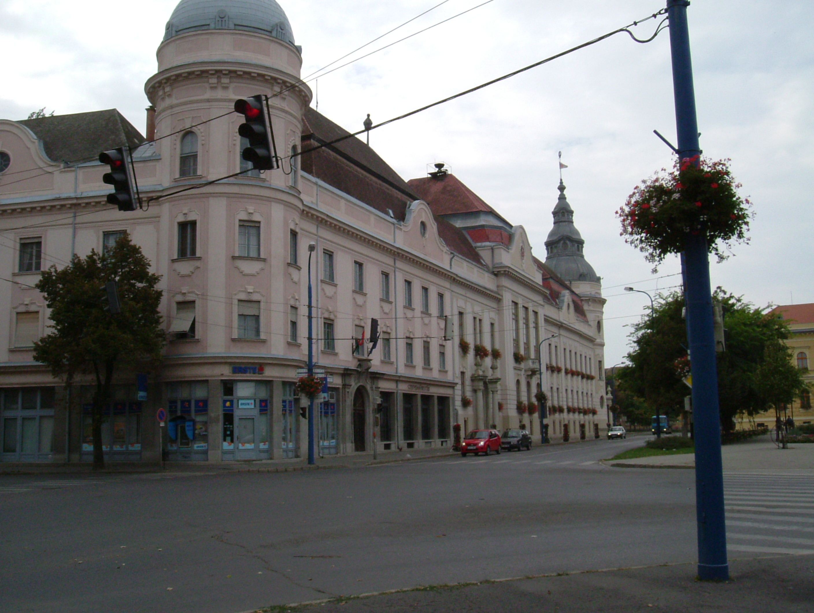 Szentes. Kossuth-square.